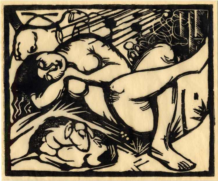 "Schlafende Hirtin," woodcut on oriental tissue, by the German artist Franz Marc. 197 mm x 240 mm. Courtesy of the British Museum, London.